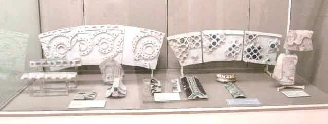 Boukoleon Palace. Architectonical fragments of terracotta and stucco. Inv. nr. 84.10, 84.11, 84.13, 84.18.